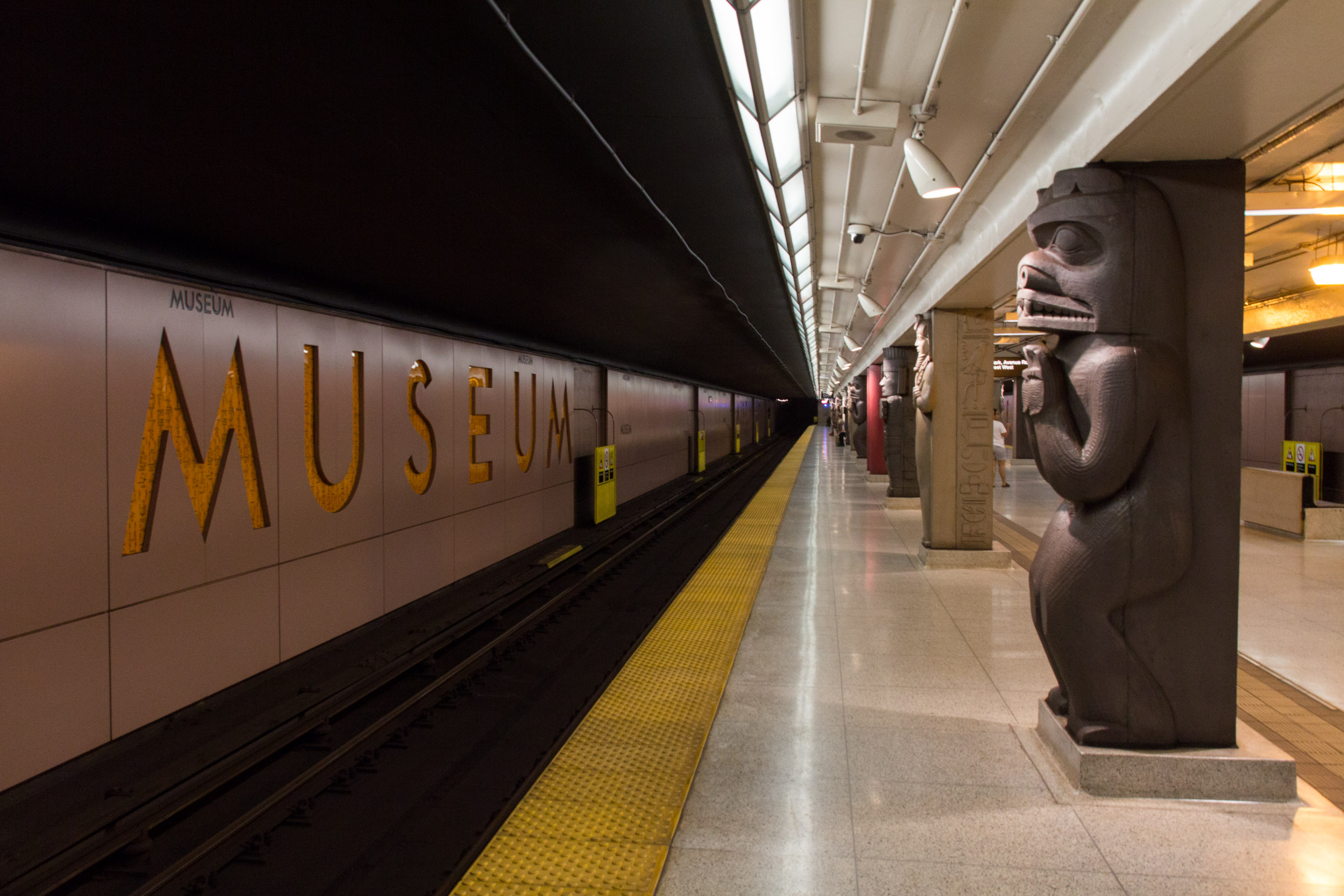 Museum Station Platform showing new signage